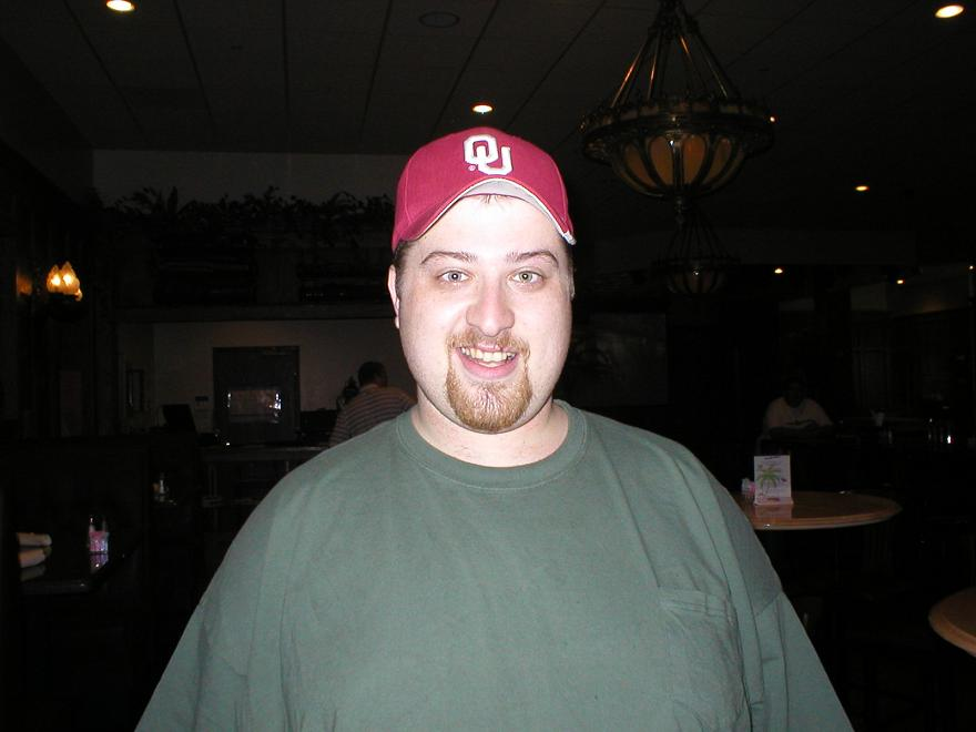 This is my personal picture that I took with my camera and may be released to the public domain.